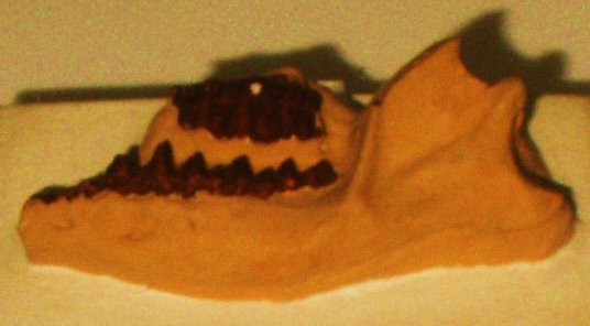 Crop of file in filename